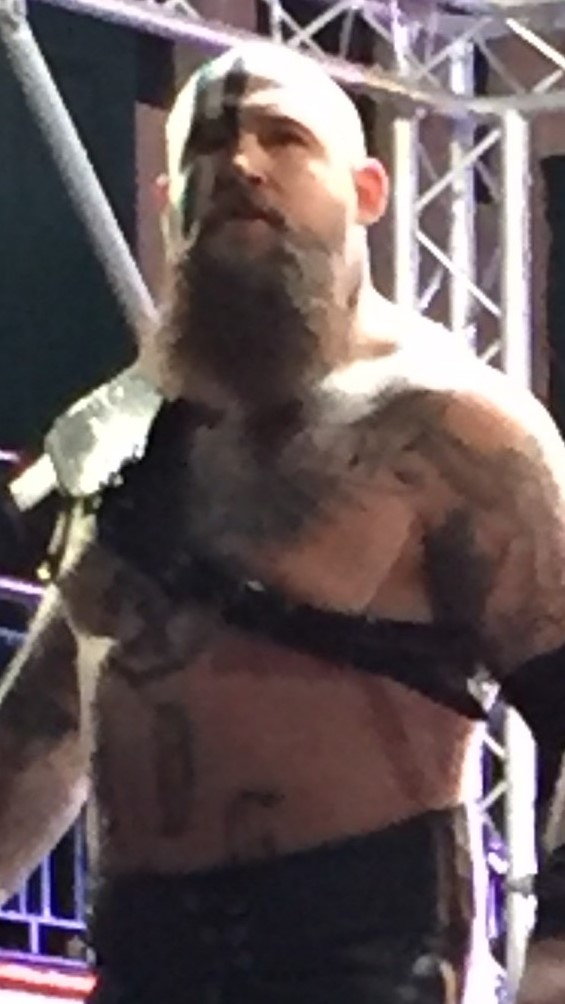 Raymond Rowe of War Machine at RPW High Stakes.